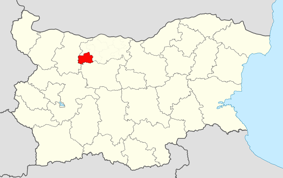 Location map of Cherven Bryag Municipality within Pleven Province, Bulgaria. Equirectangular projection, N/S stretching 130 %. Geographic limits of the map: N: 44.4° N S: 41.1° N W: 22.1° E E: 28.9° E